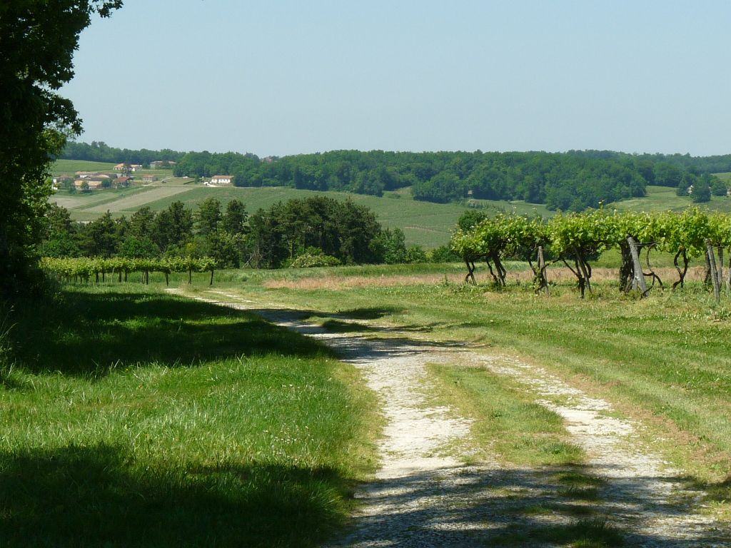 old roman way Périgueux-Pons at Birac, Charente, France